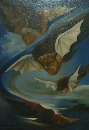 Chonchón